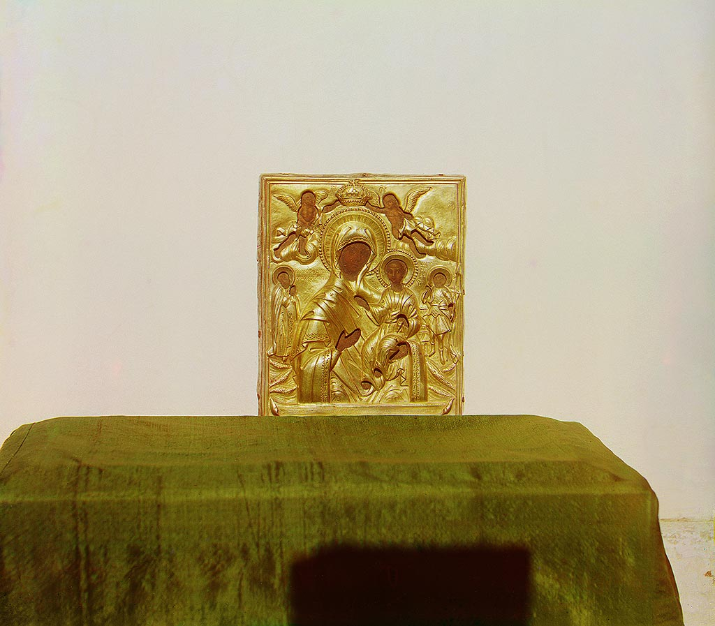 Icon of the Mother of God of Smolensk, belonging to Bagration. Borodino, 1911, S. M. Prokudin-Gorsky.